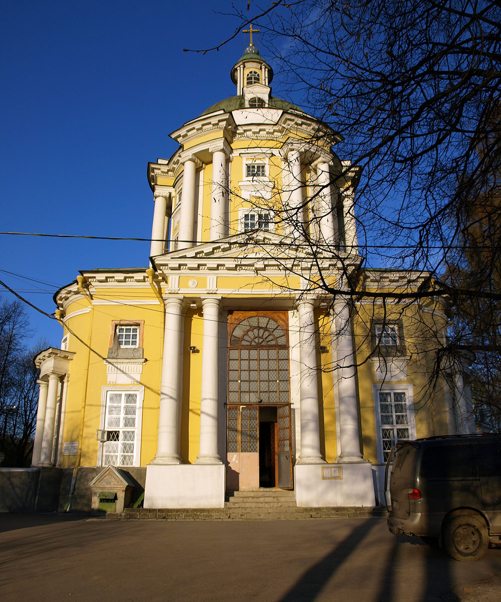 Church of Saint Vladimir in Vinogradovo (Severny district of Moscow). 1772-1774